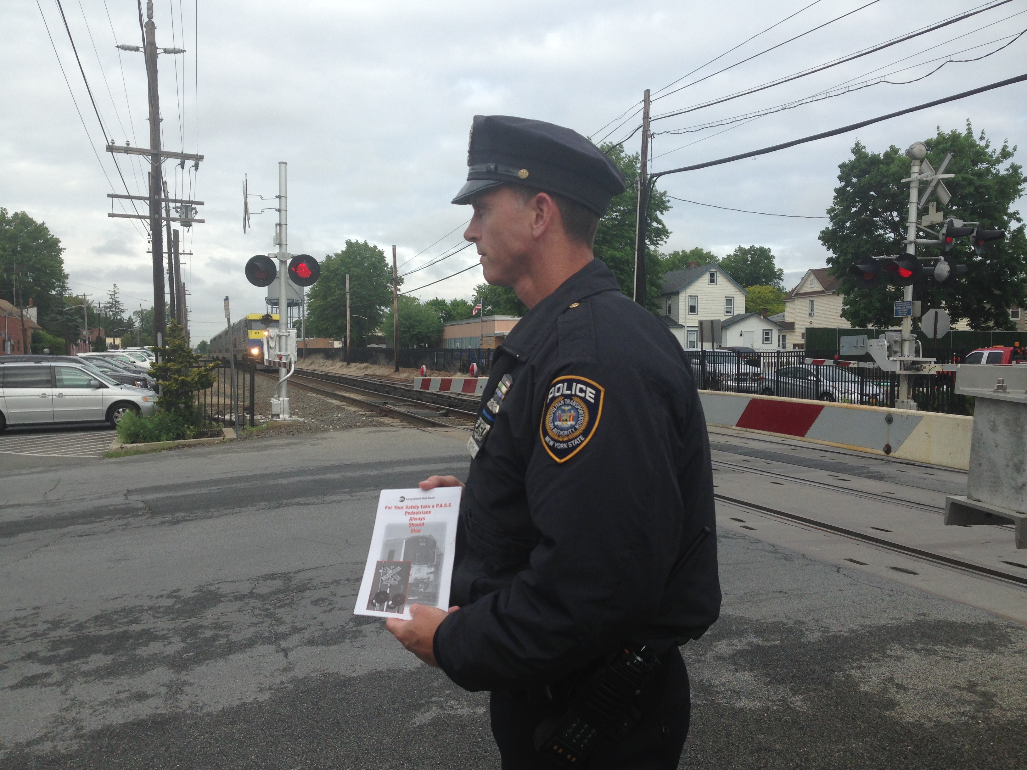 MTA police officers and railroad officials took part in International Level Crossing Awareness Day, or Railroad Crossing Awareness Day, by educating motorists, pedestrians and train customers with safety information. This photo was taken at Long Island Rail Road's New Hyde Park Station. Photo: MTA Long Island Rail Road / Timothy Doddo